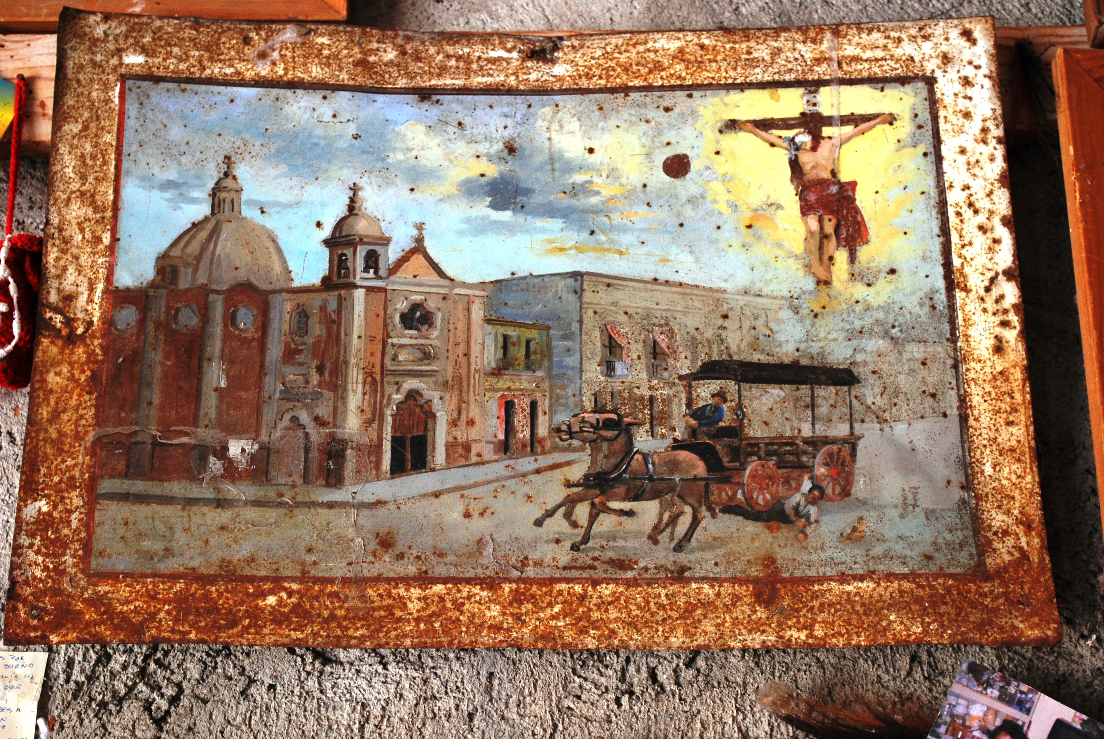 Folk retablo of unknown painter and date on display at the folk retablo room at the Sanctuary of Chalma in Chalma, Malinalco, Mexico State